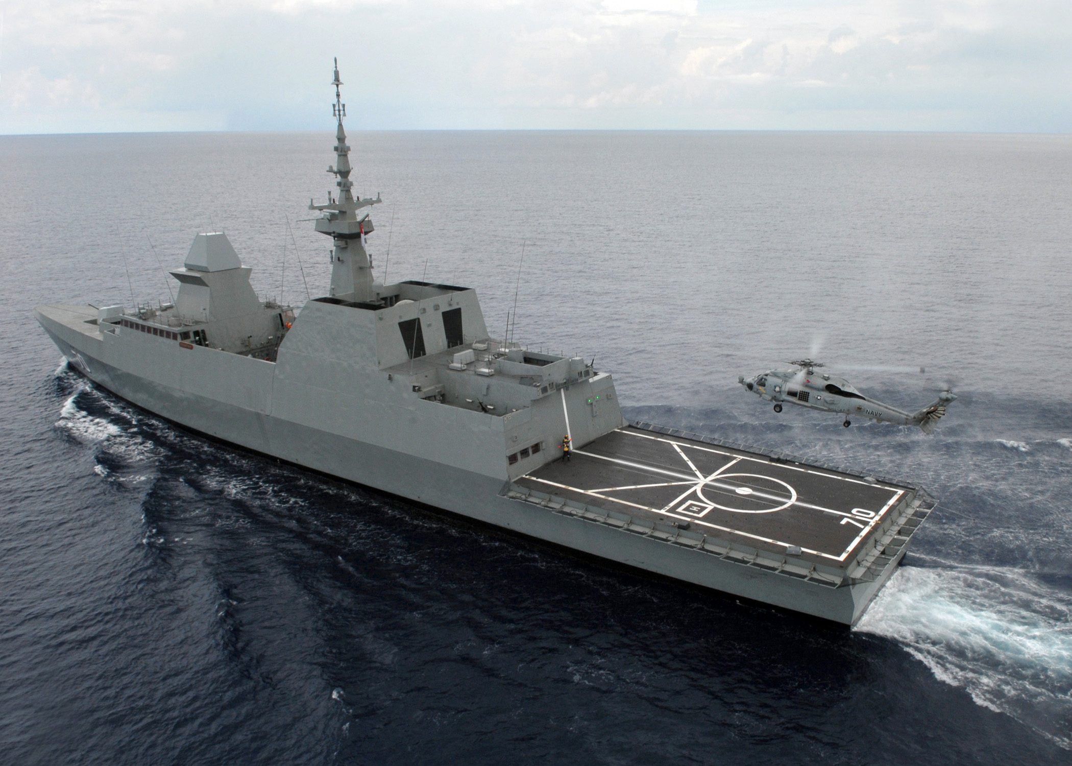 An SH-60B Seahawk assigned to HSL-47 lands aboard the Republic of Singapore Navy guided-missile frigate RSS Steadfast (FFG 70) during flight deck qualifications.